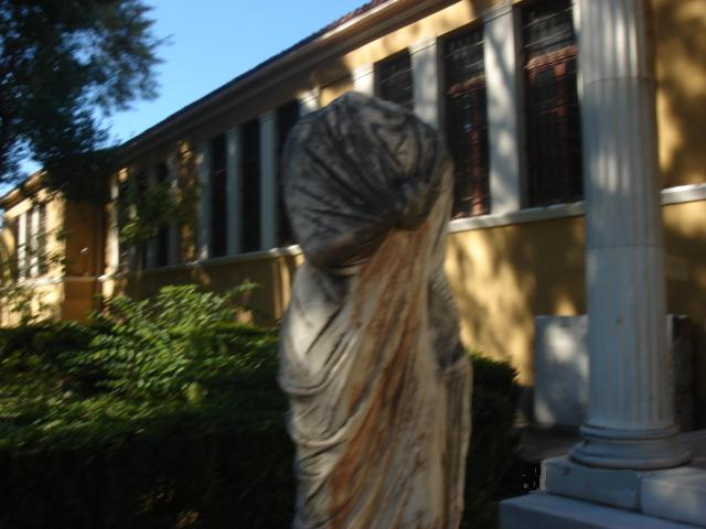 Archaeological Museum of Sparta, Greece